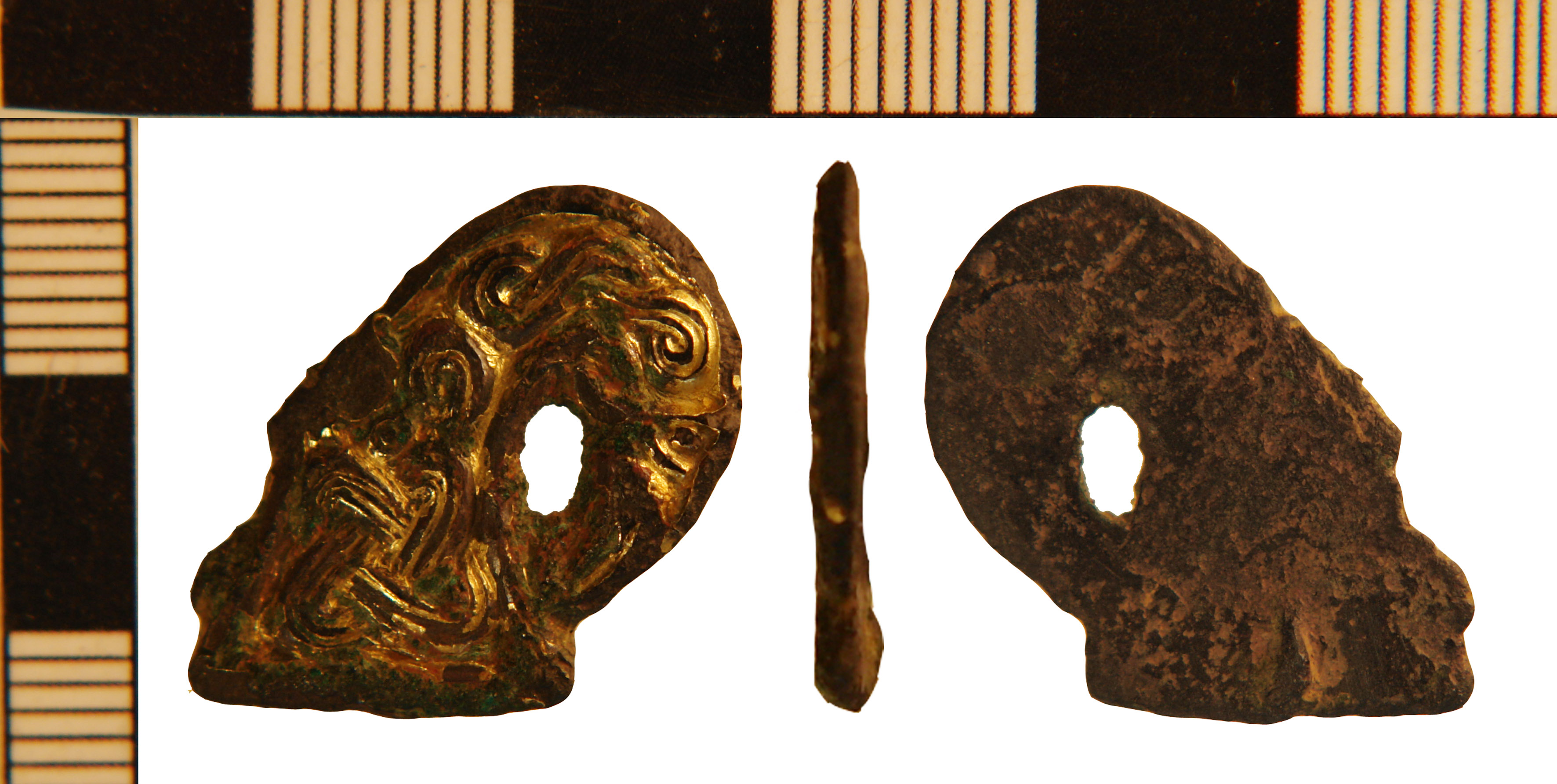 Copper alloy with Gilding Mount fragment. Cast flat backed plate in the form of the head of a bird with curving bill, probably one of a symetrically addorsed pair, as adduced by ragged broken edges behind the body. An eye is defined naturalistically in relief, as is a nostril at the top of the beak, but the neck and upper body afford fields for curvilinear interlaced ornament, each strand of which comprises paired ridges highlighted by deeply incised (or appearing thus) gutters between them. Dr Kevin Leahy kindly identifies this piece as of Salin Style 2, and as such an indication of an aristocratic context for this piece. The relief work retains extensive gilding. A tiny lug on the back, of length c.4mm which stands proud of this flat surface by c.1mm, may either be a casting flaw or a feature which assisted fixing. The motif of a raptor could be used in martial contexts and might appear on objects such as shields. However, the small scale of this example might be more appropriate to the decoration of a book cover, as for example the Gospel of John who is traditionally represented by an eagle. The eagle motif also appears on a 7th-century brooch from the Anglo-Saxon cemetery at Castledyke, South, Barton upon Humber, North Lincolnshire (Drinkall and Foreman 1998). Suggested date: Early Medieval, 650-700. Height: 20.5mm, Width: 19.7mm, Thickness: 2.8mm, Weight: 3.34gms.